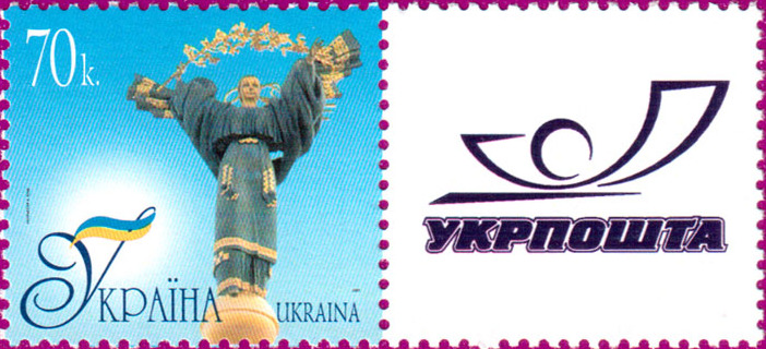 Stamp of Ukraine